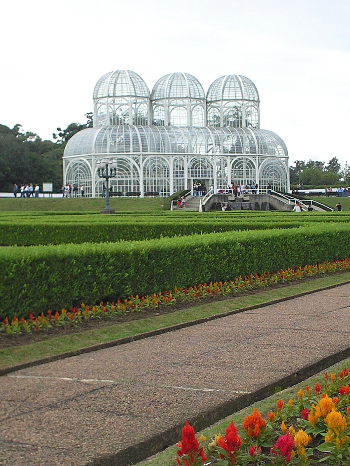 Botanical Garden of Curitiba, Paraná, Brazil